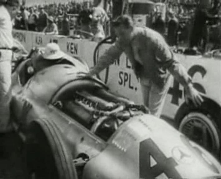 Image from footage showing the Mercedes-Benz W154 entered by Don Lee at the 1947 Indianapolis 500.